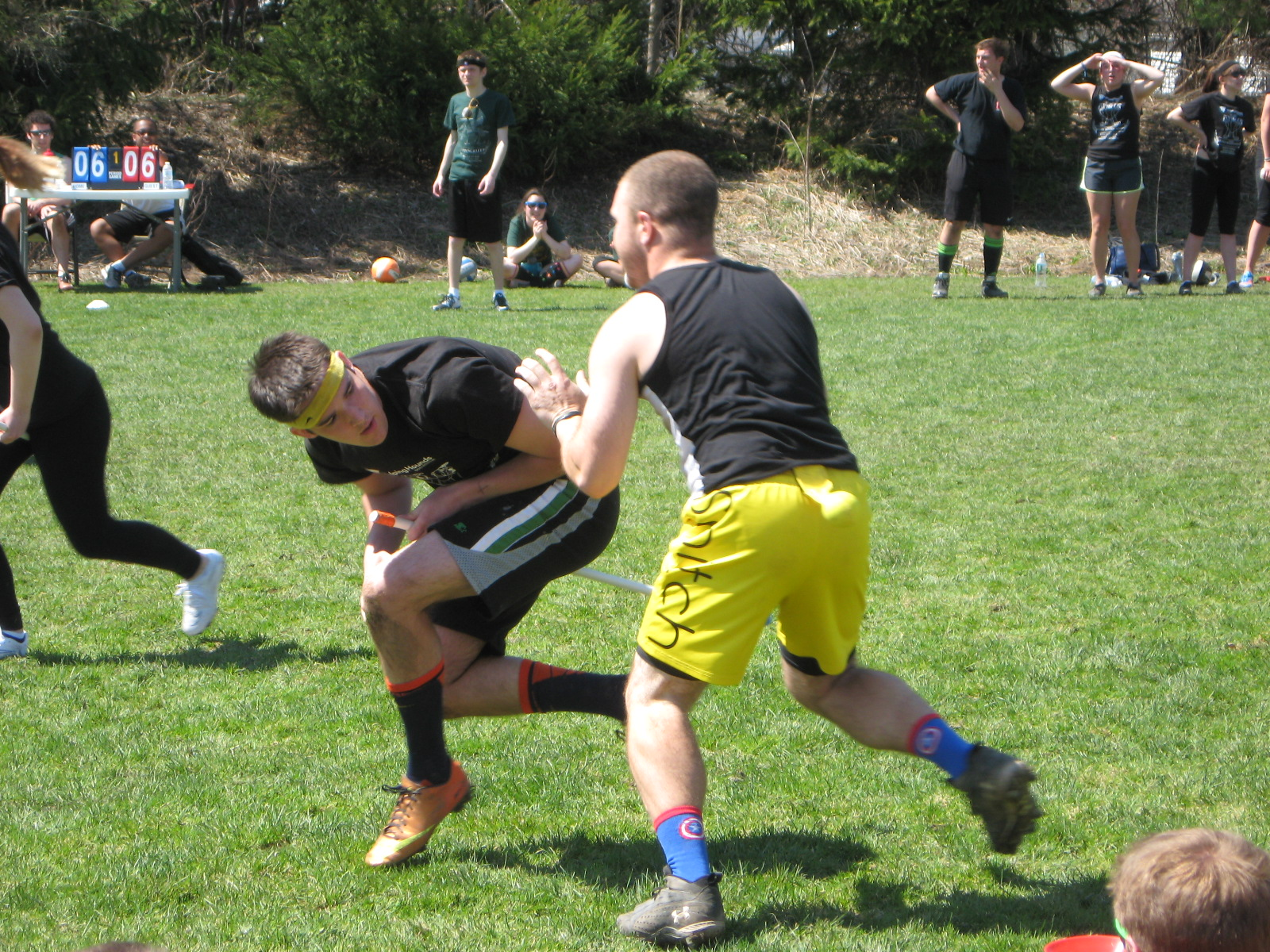 Charity ('mercenary') quidditch tournament hosted by the Syracuse University club quidditch team, Lower Hookway Field, Syracuse University, April 18, 2015